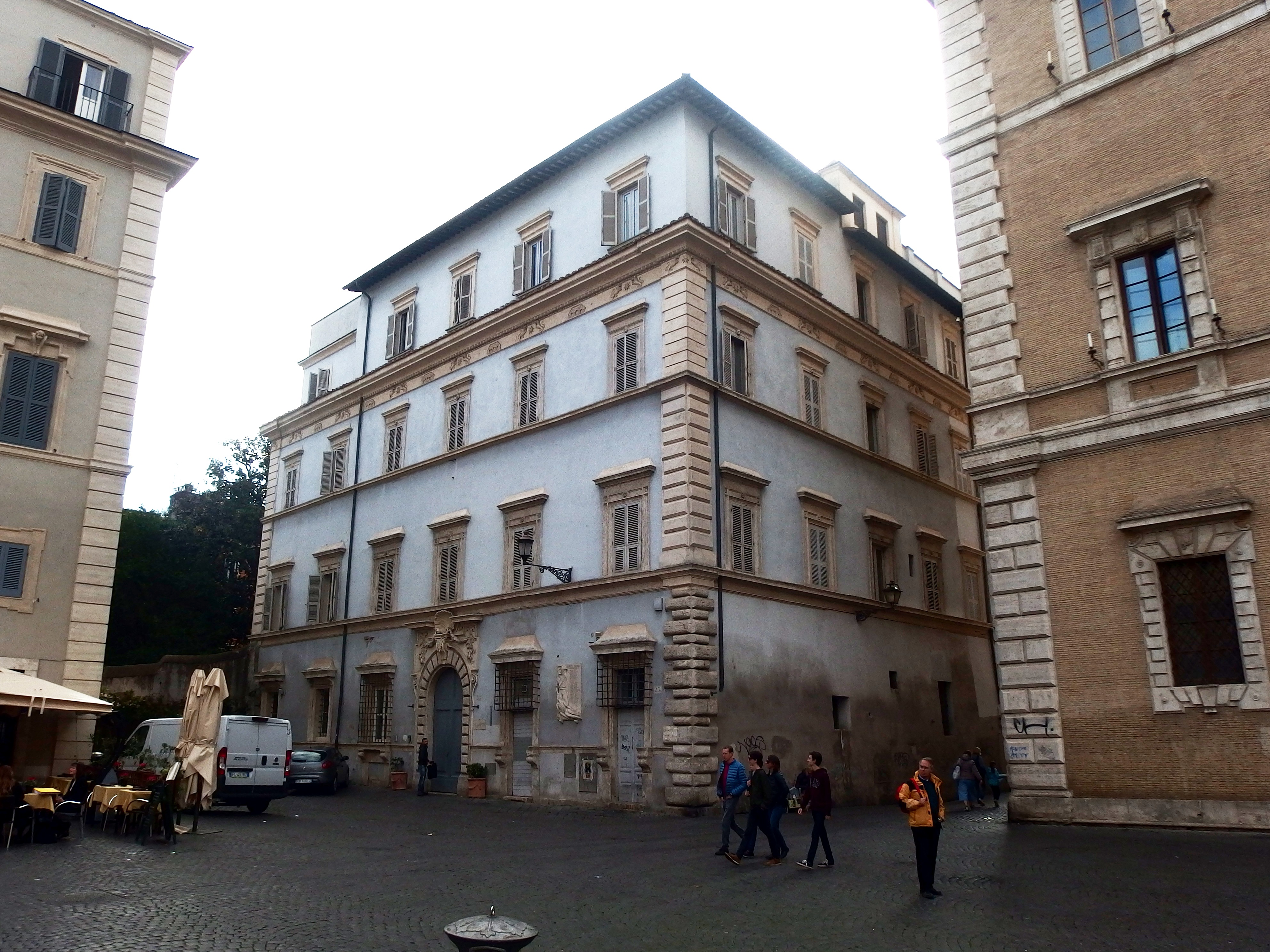 Rome, Italy. Santa Maria in Trastevere Square.